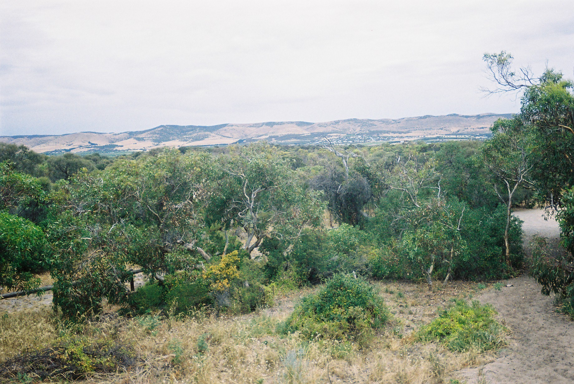 Seagull Street, Aldinga Beach, SA 20th December 2007 Aldinga Scrub Reserve overlooked by Sellicks Hill Range